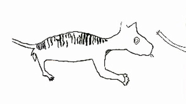 Trace of Australian cave art possibly depicting Thylacoleo carnifex. It more likely depicts a Thylacine.